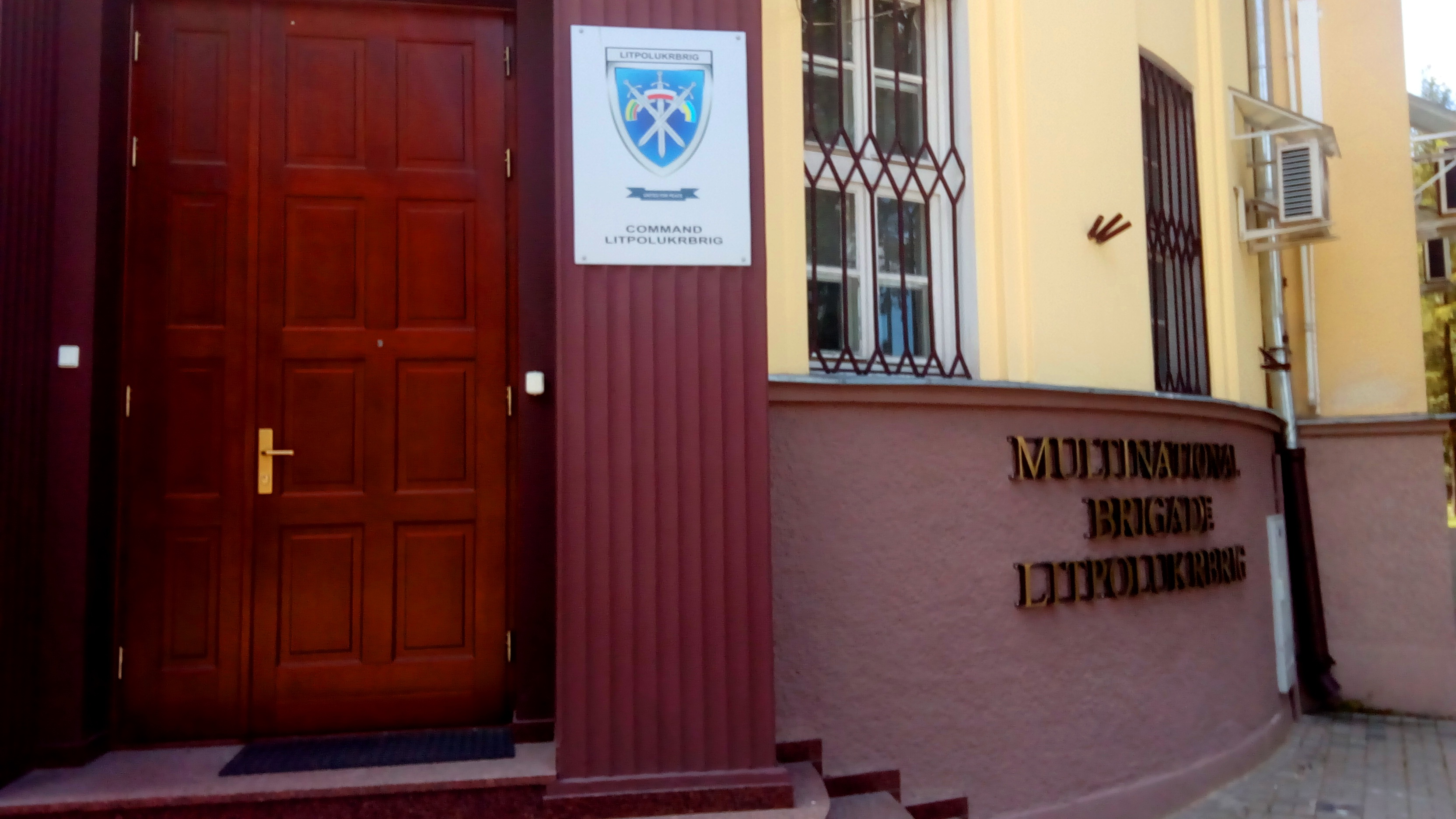 HQ, Lublin, Poland